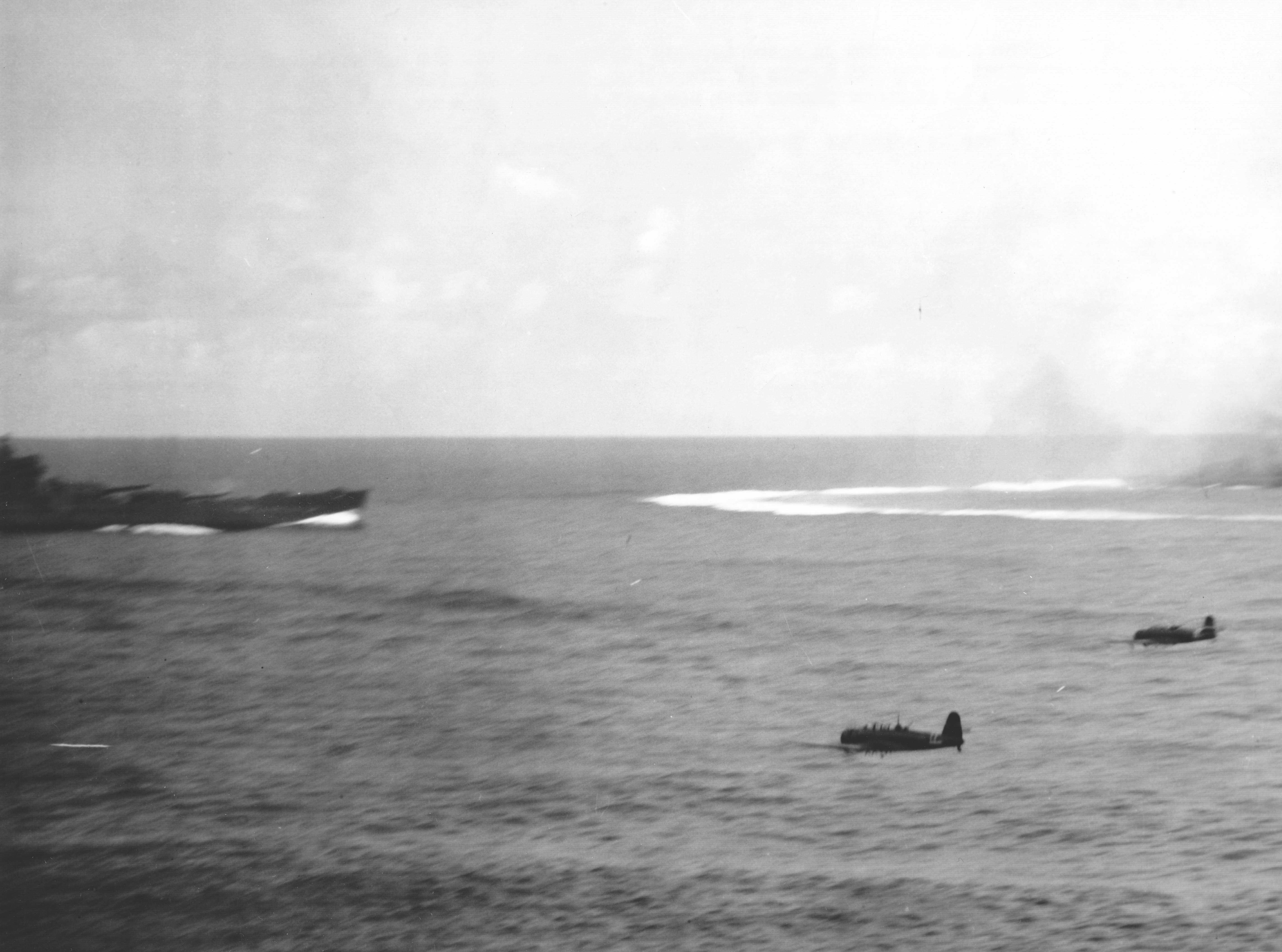 Two Japanese Nakajima B5N2 Kate torpedo bombers fly near the U.S. battleship USS South Dakota (BB-57) during the Battle of Santa Cruz Islands on 26 October 1942 in the Southwest Pacific.